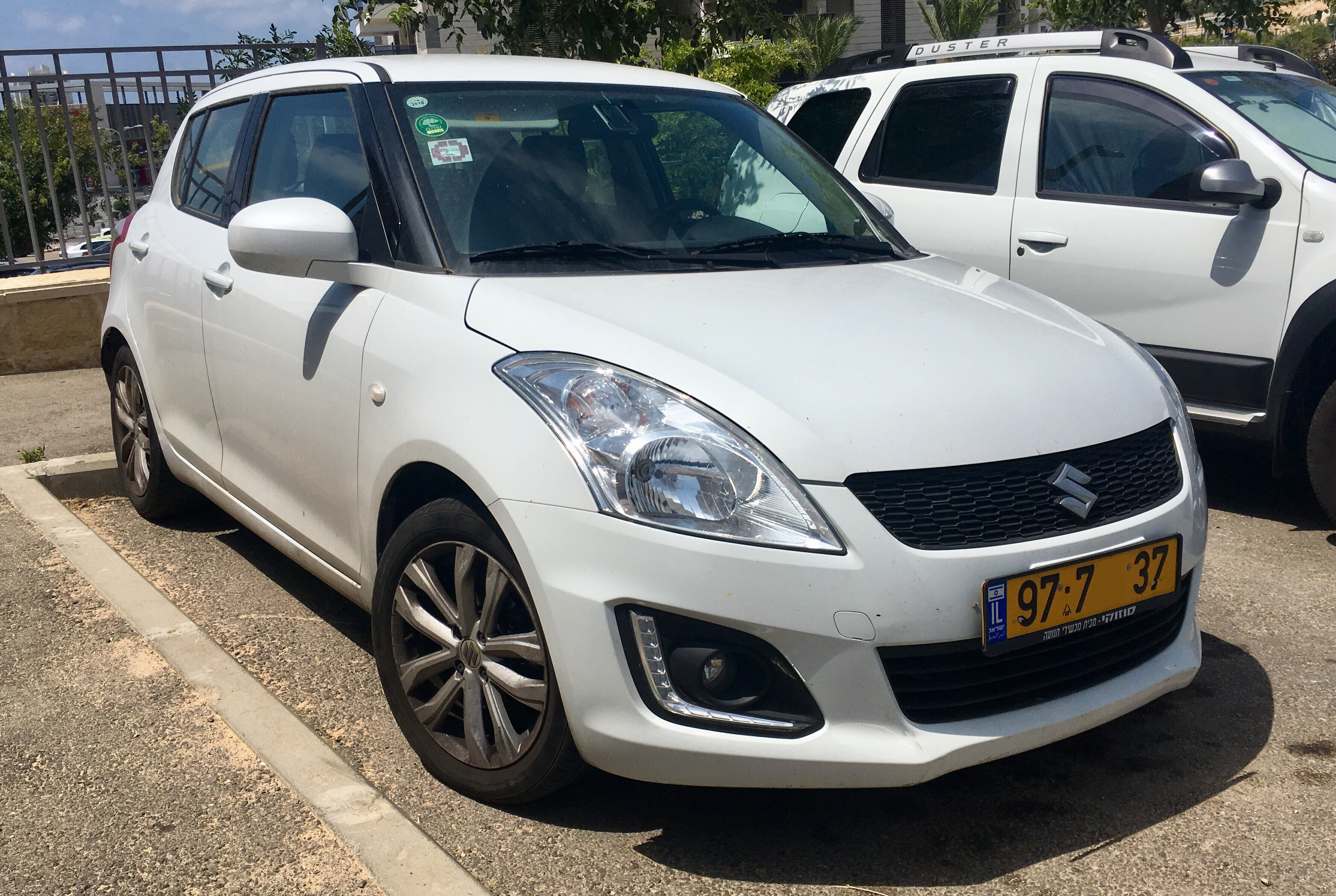 3rd Generation 5 door Swift (Facelift)